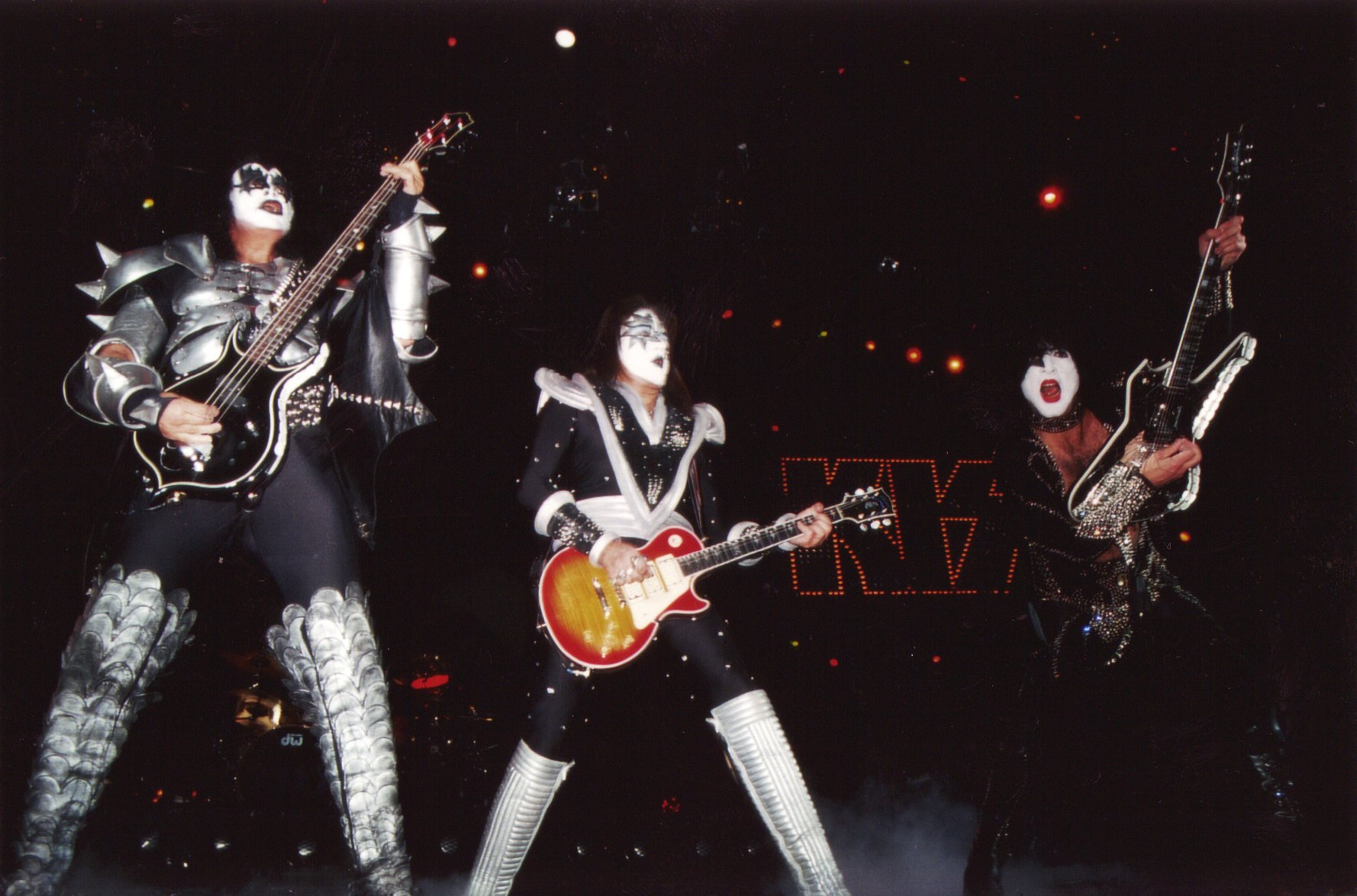 Kiss live in Paris during Psycho Circus World Tour '99.